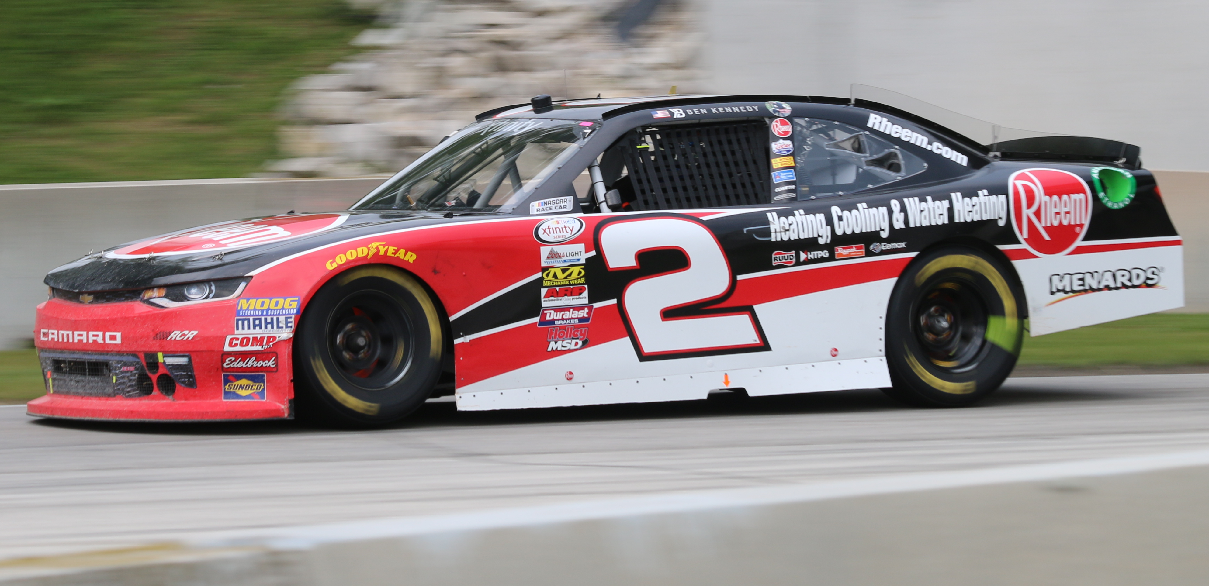 The Chevrolet Camaro of Ben Kennedy at the NASCAR Xfinity Series Johnsonville 180.